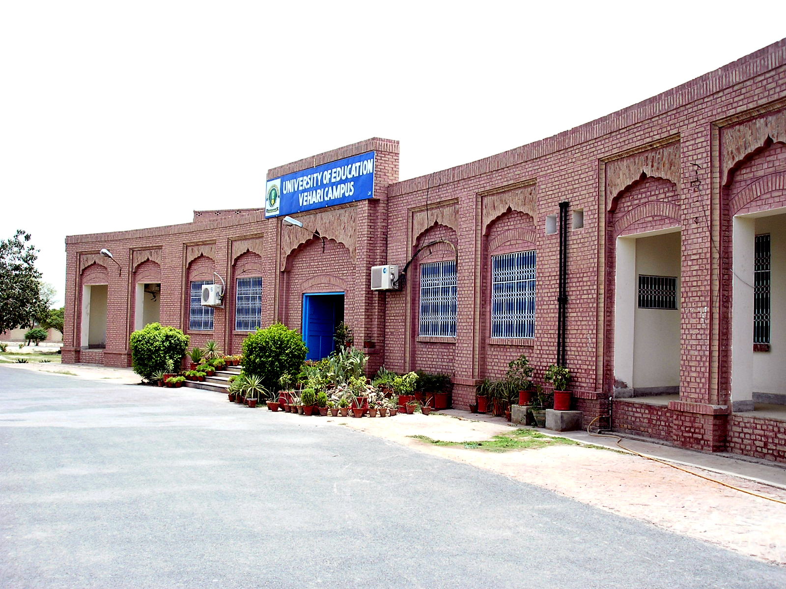 University of Education Vehari Campus